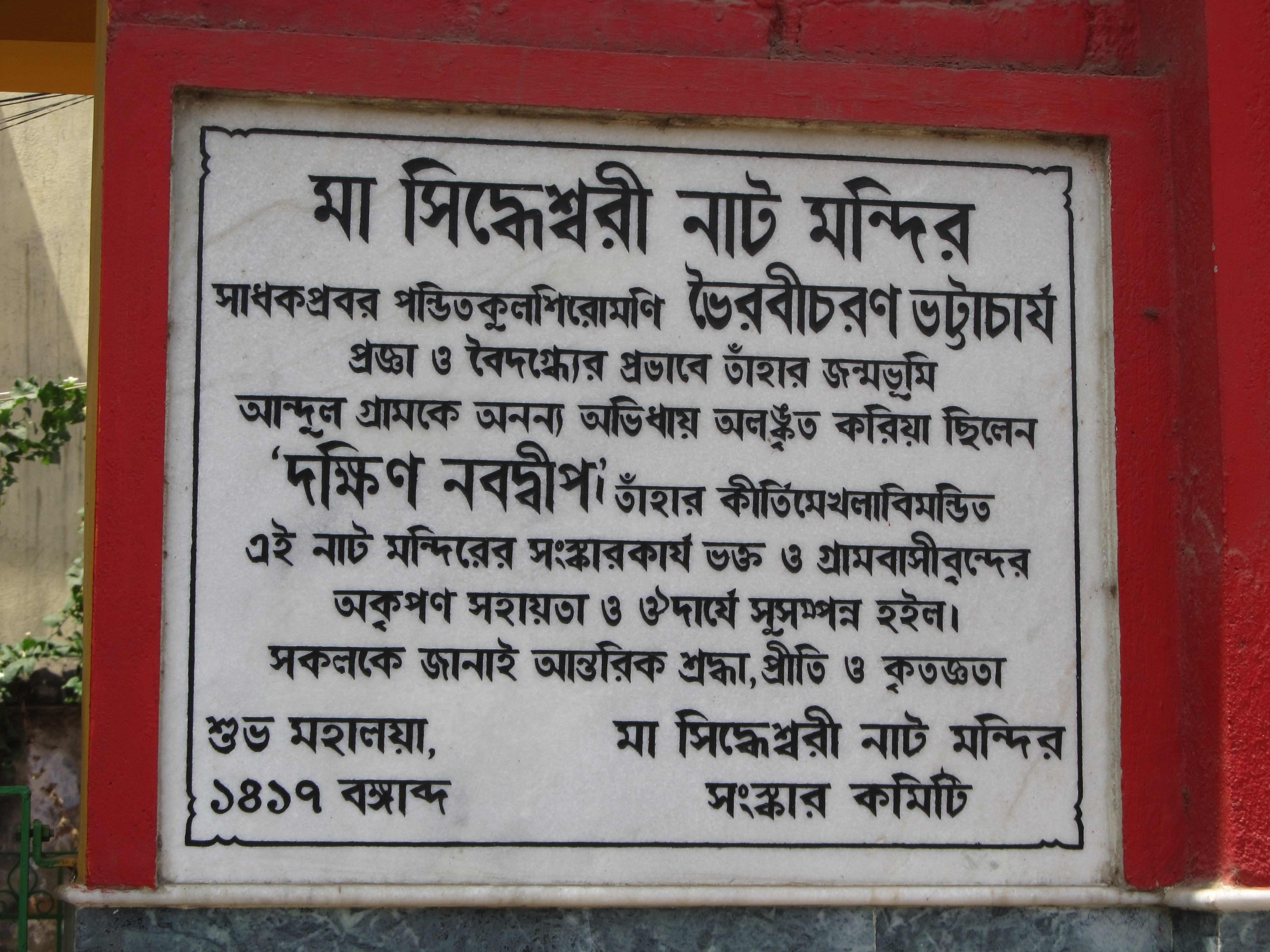 Siddheswari mandir at Siddheswaritala, Andul, Howrah.